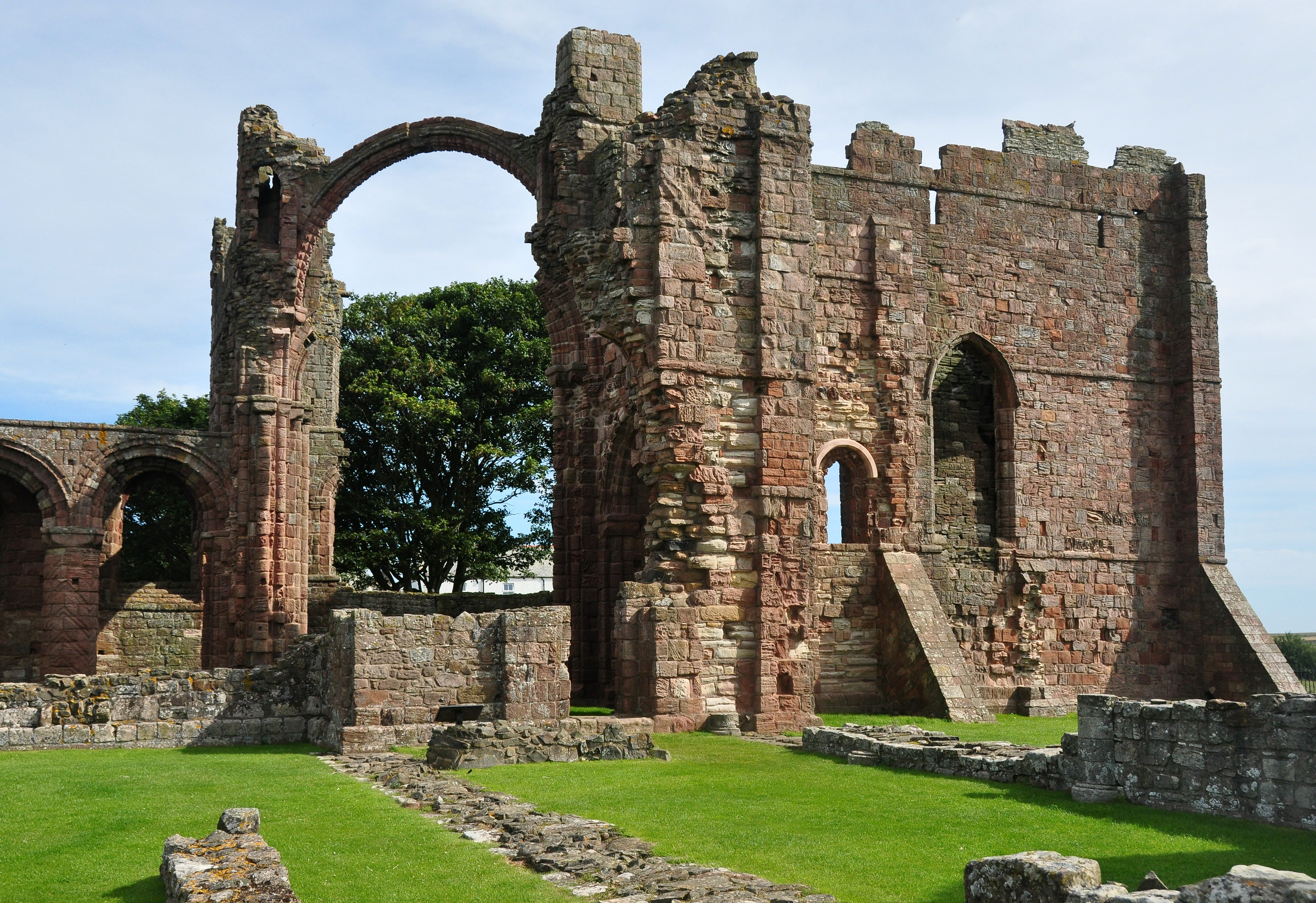 The east end of Lindisfarne Priory Church, Northumberland. The rainbow arch is visible, with the remains of the presbytery behind it.